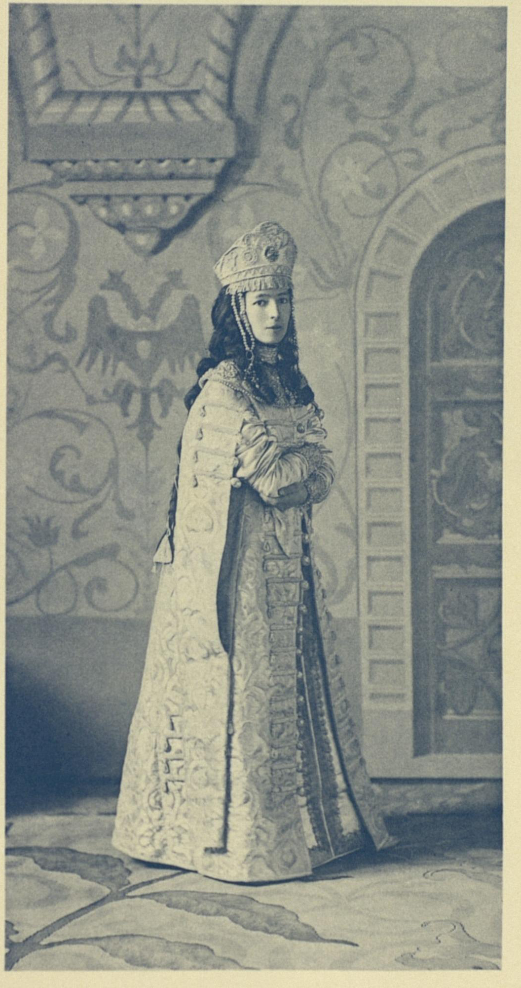 Princess Sofia Ivanovna Orbeliani